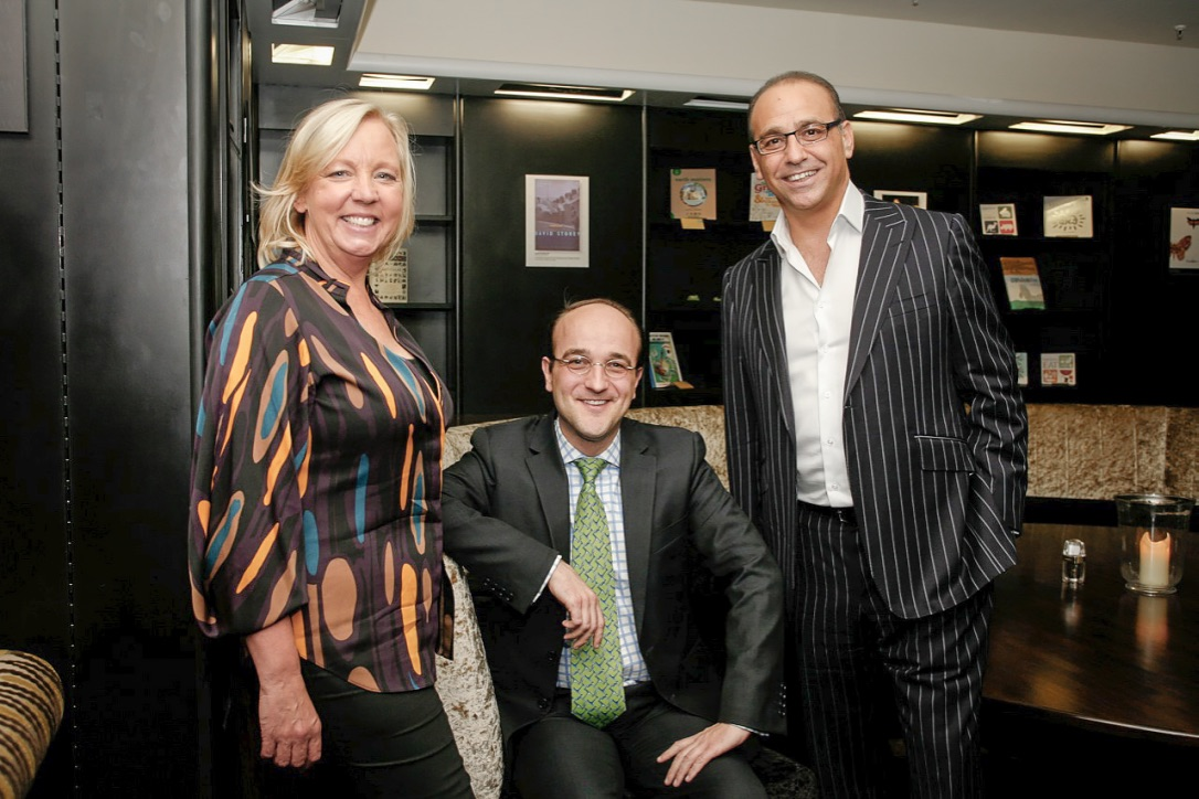 Photo taken after BBC's Dragon's Den appearance